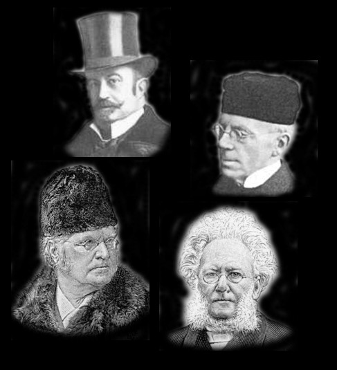 De fire store, "The Four Greats" of Norwegian literature: Henrik Ibsen, Bjørnstjerne Bjørnson, Alexander Kielland and Jonas Lie. Assemebled from out-of-copyright images.